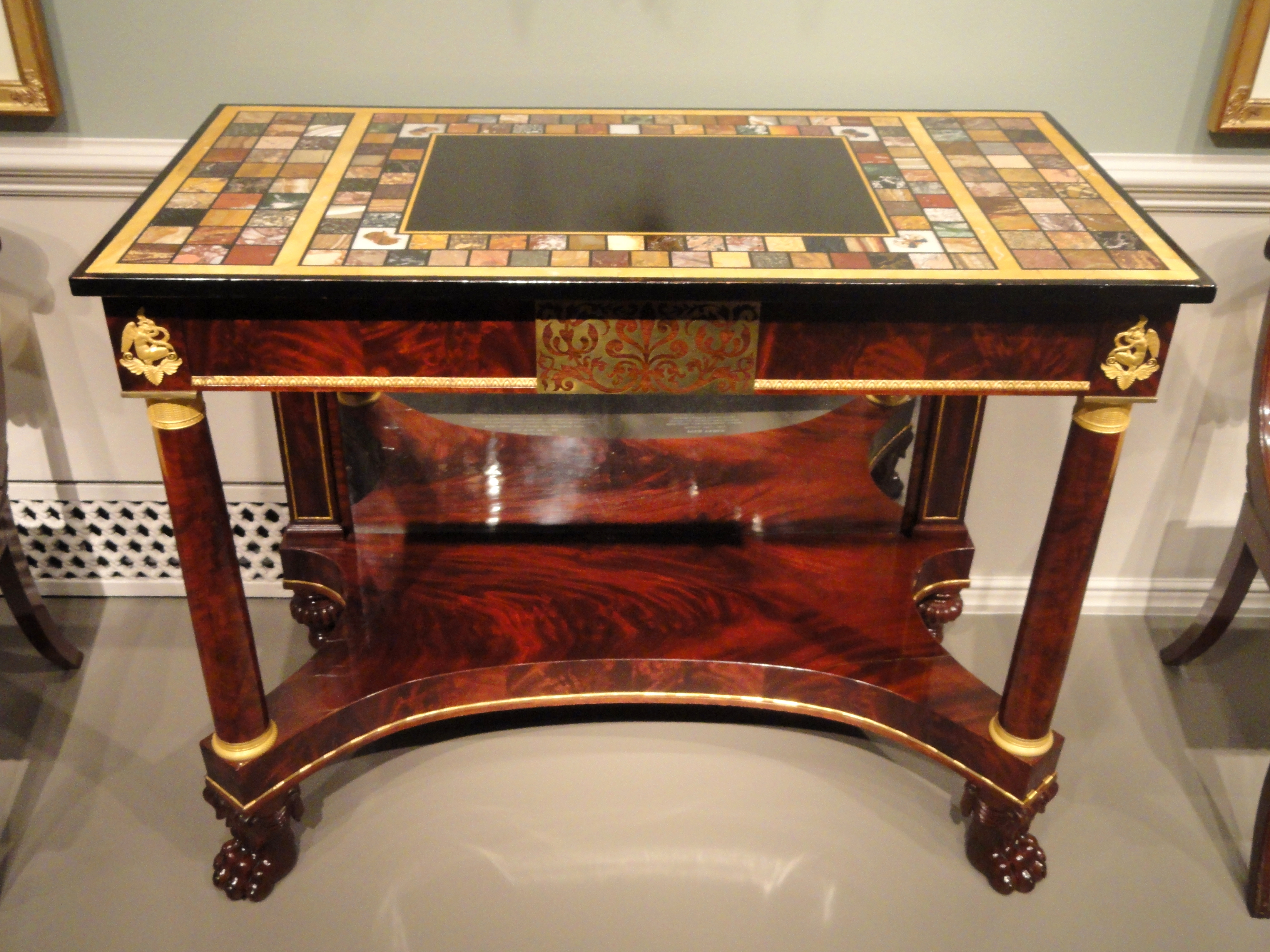 Furniture exhibited in the National Gallery of Art, Washington, DC, USA. This work is in the public domain because the maker(s) died more than 70 years ago.